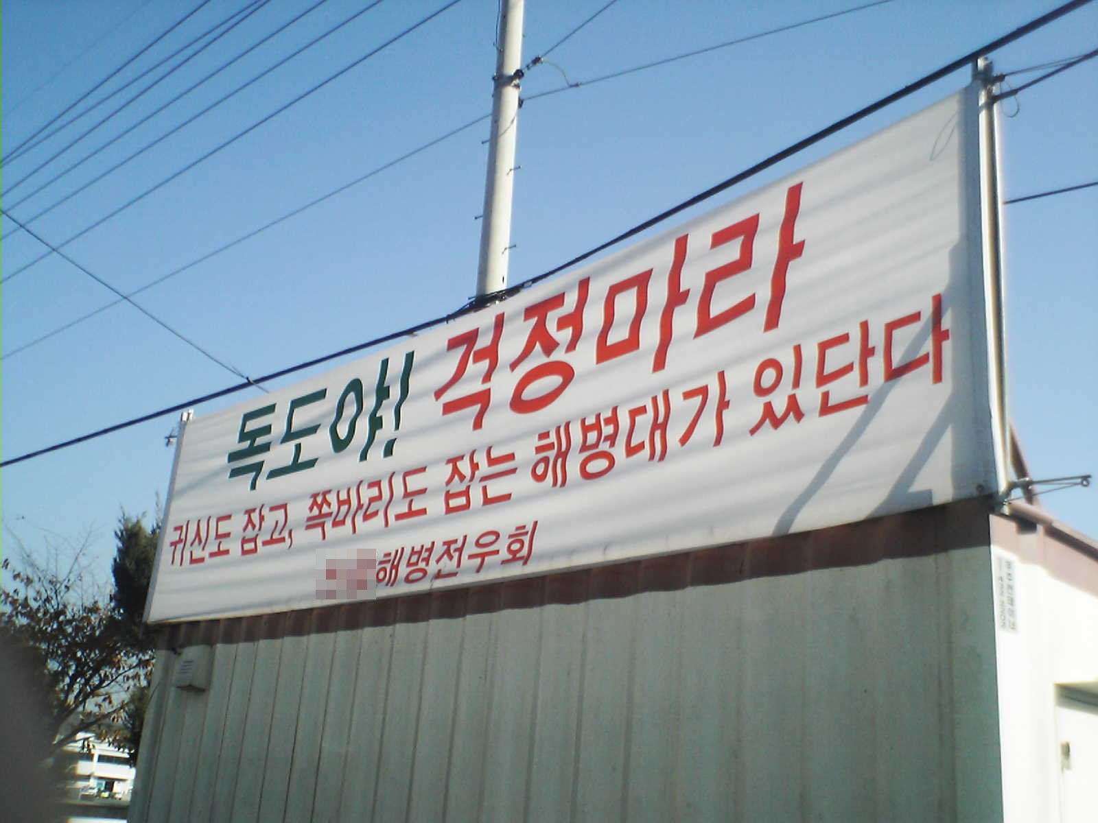 독도야! 걱정마라. 귀신도 잡고, 쪽바리도 잡는 해병대가 있단다. — 해병 전우회 Translate : Don't worry Dokdo. There are Marine Corps who can win ghost and JJokbari(The word disparaging Japanese) 日本語訳：独島よ! 心配するな。鬼神も捕まえ、チョッパリも捕まえる海兵隊があるんだよ。— 海兵戦友会